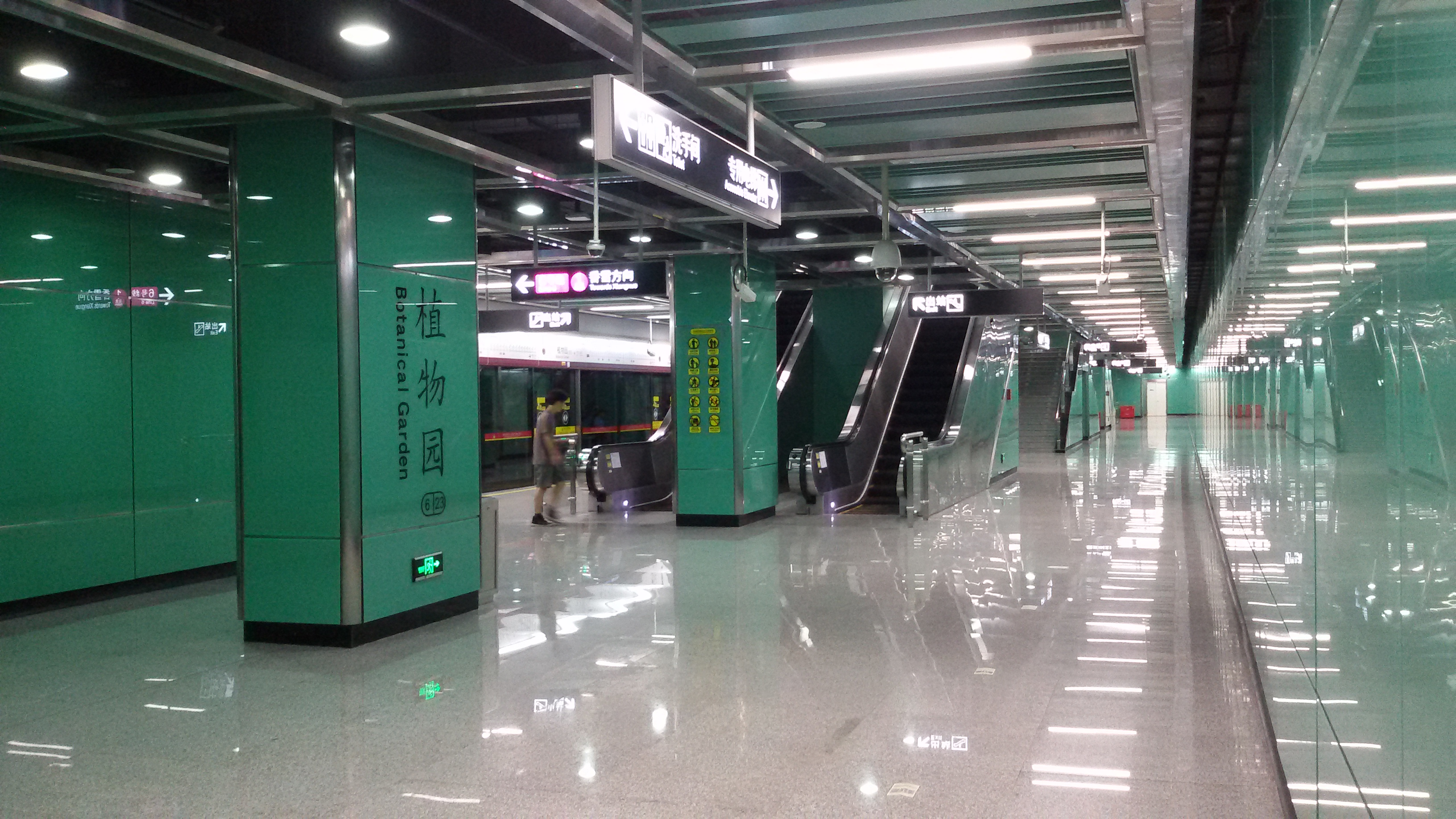 Station Platform for Luogang Station in Guangzhou Metro.